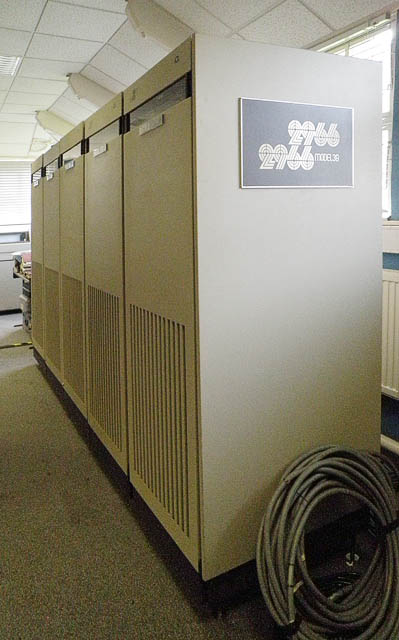 An ICL 2966 Model 39, at the National Museum Of Computing, Bletchley Park, UK